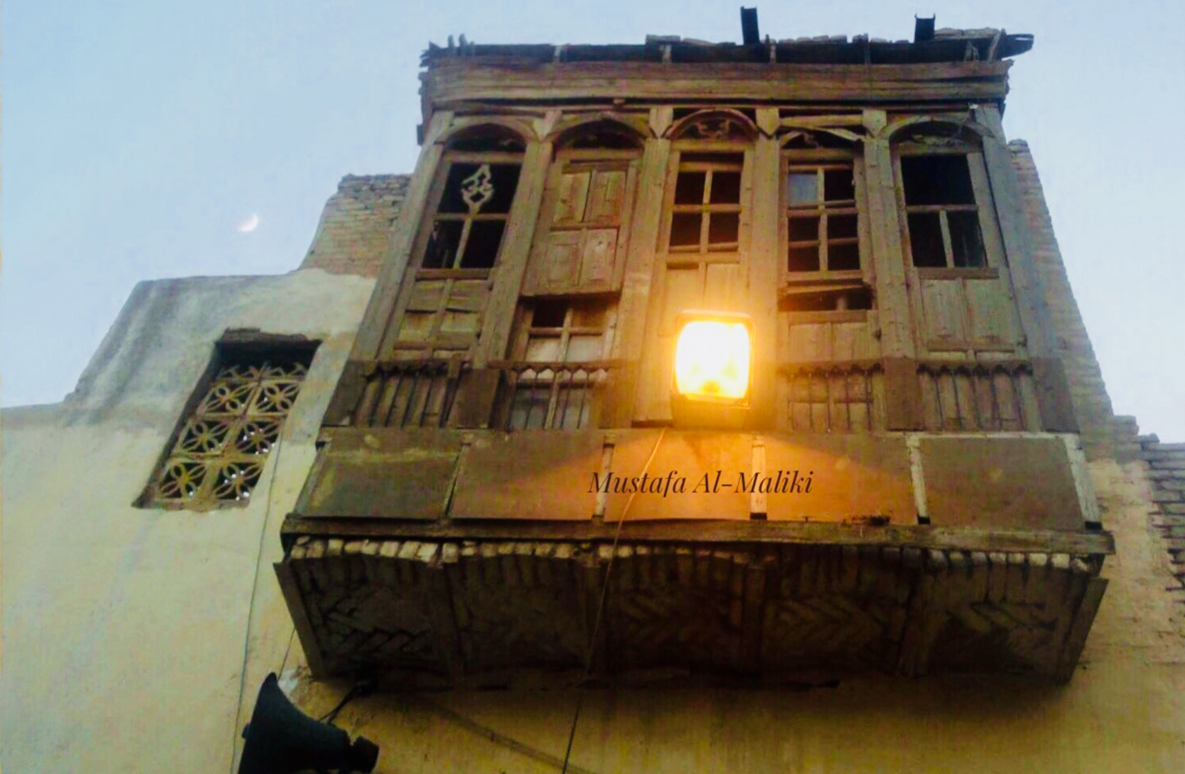 شمناشيل حسينية حسين علوان الزبيدي، وهو بالأصل بيت الحاج كاظم السلمان. تقع الحسينية في قضاء المجر الكبير في محافظه ميسان جنوب العراق